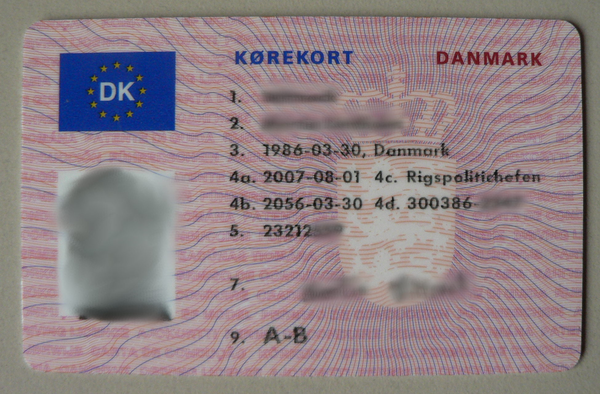 A Danish drivers-license - The id-picture, name, surname, signature and the last numbers of the registration-numbers are blured. Partly to protect the owner, but also because this information is distracting in its intended use.